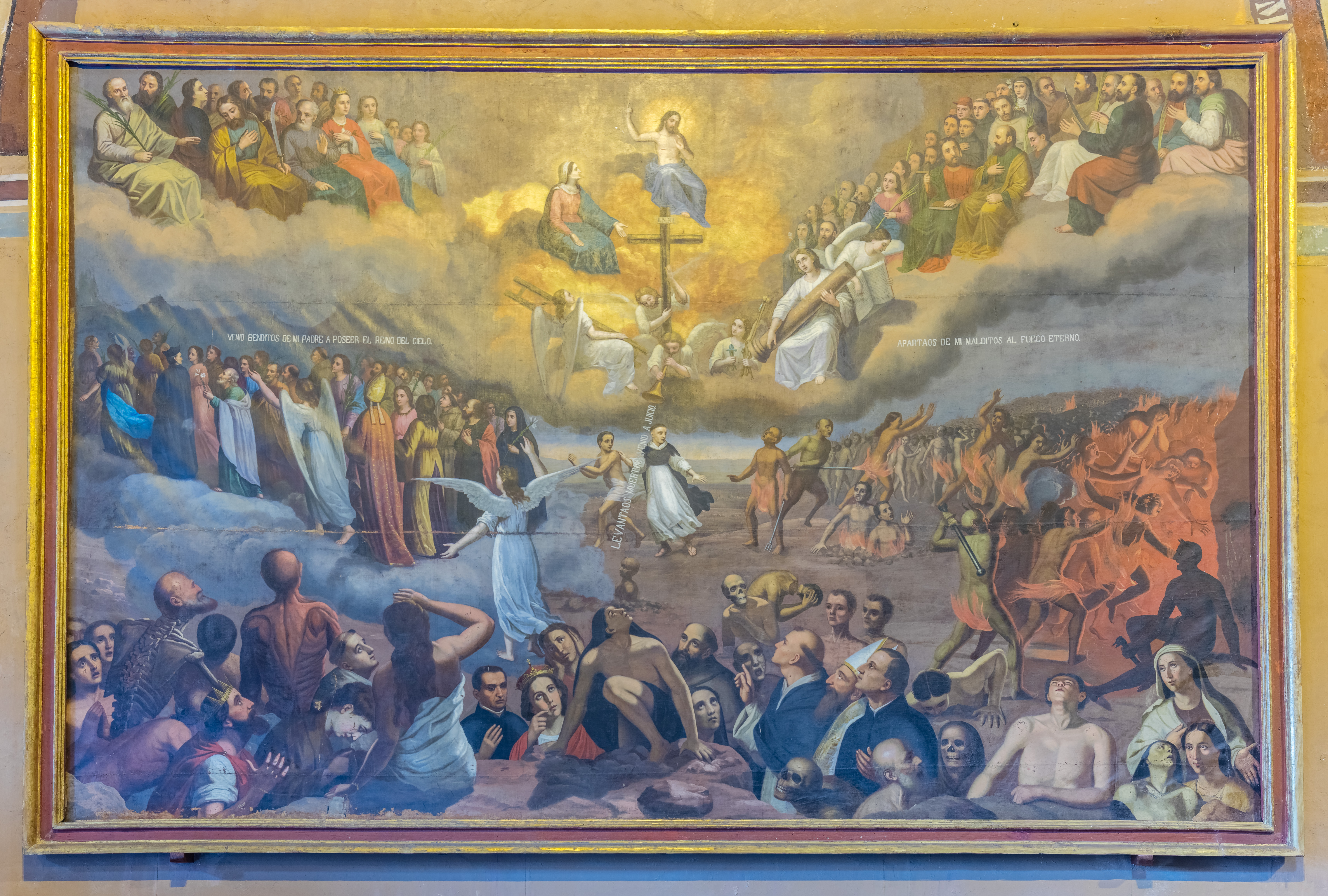 Church of the Society of Jesus, Quito, Ecuador